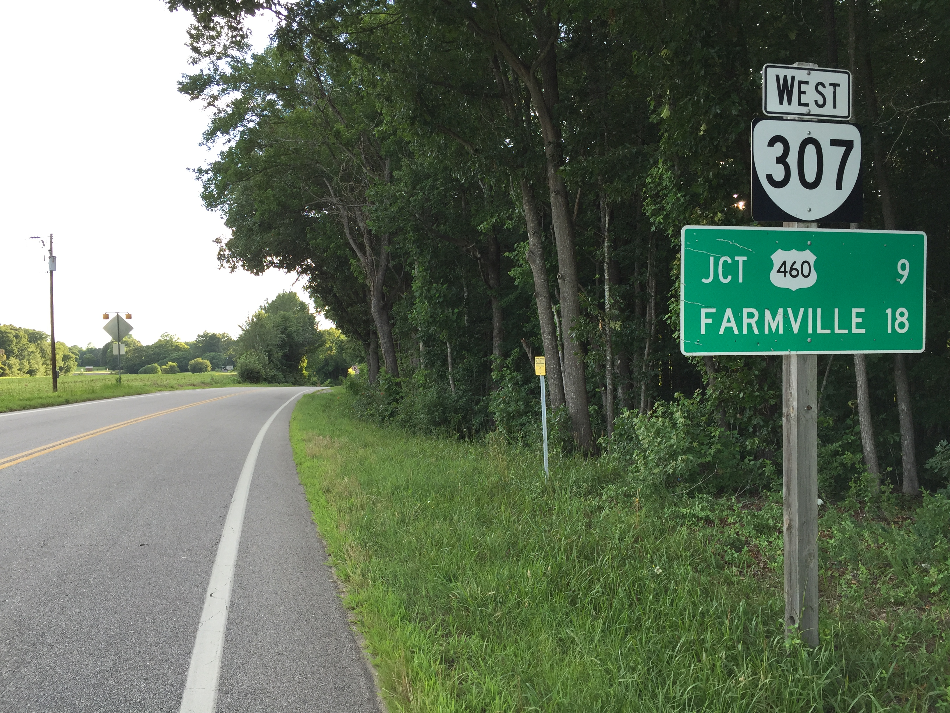 View west along Virginia State Route 307 (Holly Farms Road) at U.S. Route 360 (Patrick Henry Highway) in Jetersville, Amelia County, Virginia